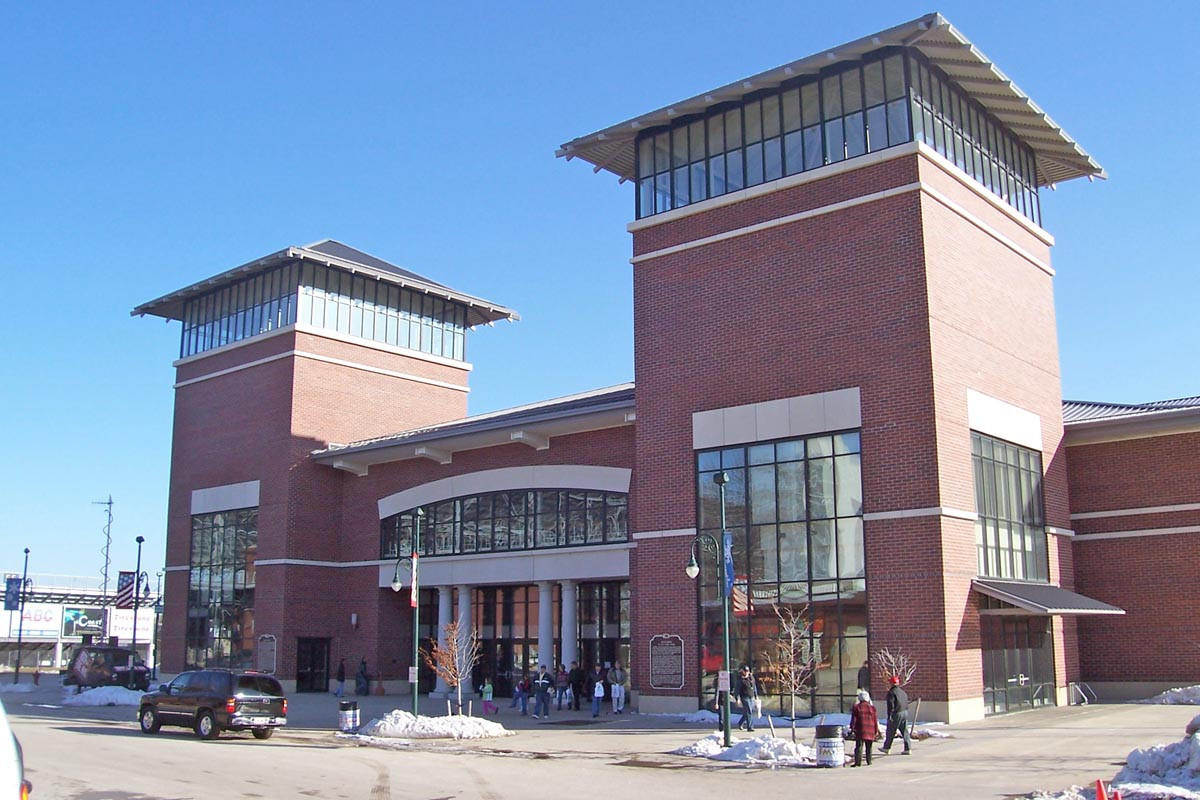 Copyright © 2006 Sulfur The Wisconsin Exposition Center is a facility located on the grounds of the Wisconsin State Fair Park in West Allis, Wisconsin.